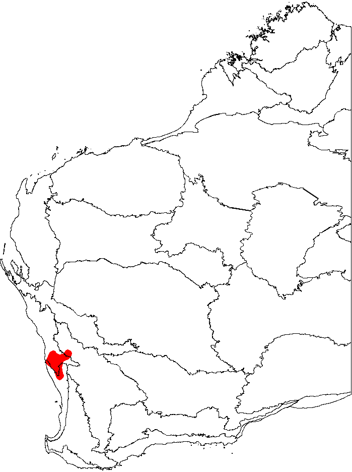 This is a map of Western Australia, showing the distribution of Banksia grossa (Coarse Banksia) superimposed on a background of the IBRA 6.1 biogeographic regions.